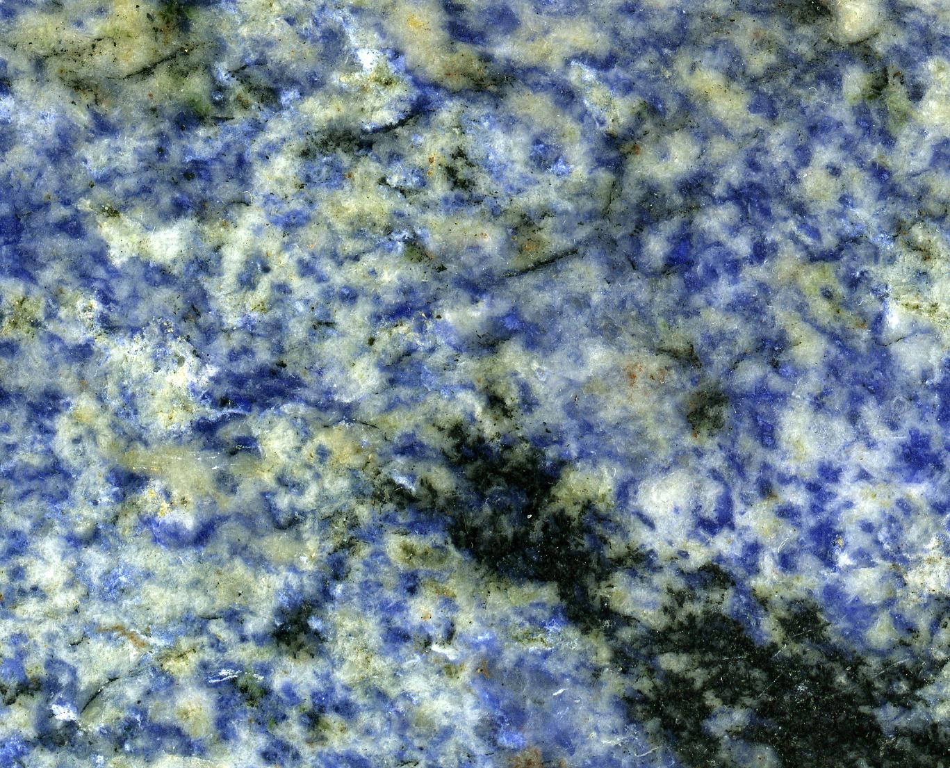 Sodalite metasyenite (“Azul Bahia Granite”) - “Azul Bahia Granite” from eastern Brazil has the reputation for being a very expensive decorative stone. It's distinctive in having considerable non-iridescent blue coloration. “Azul Bahia Granite” is a sodalite metasyenite (a.k.a. sodalite foyaite, sodalite foidolite) having sodalite (blue) (Na4(Al3Si3)O12Cl), feldspars & feldspathoids (white), mafic minerals (black), and epidote (greenish) (Ca2FeAl2(Si2O7)(SiO4)O(OH)). It comes from the Itabuna Syenite Complex, a late Neoproterozoic unit (about 676 million years) that intruded through the São Francisco Craton. Locality: commercial quarry at Fazenda Hiassu, city of Itaju do Colonia, southeastern Bahia State, eastern Brazil.